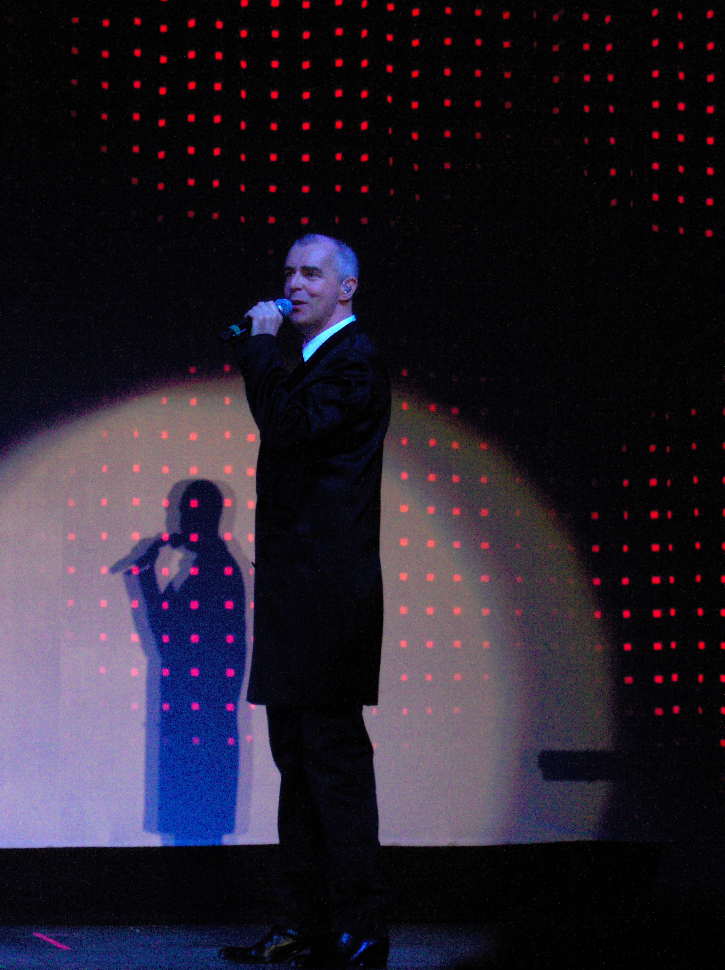 Neil Tennant of Pet Shop Boys